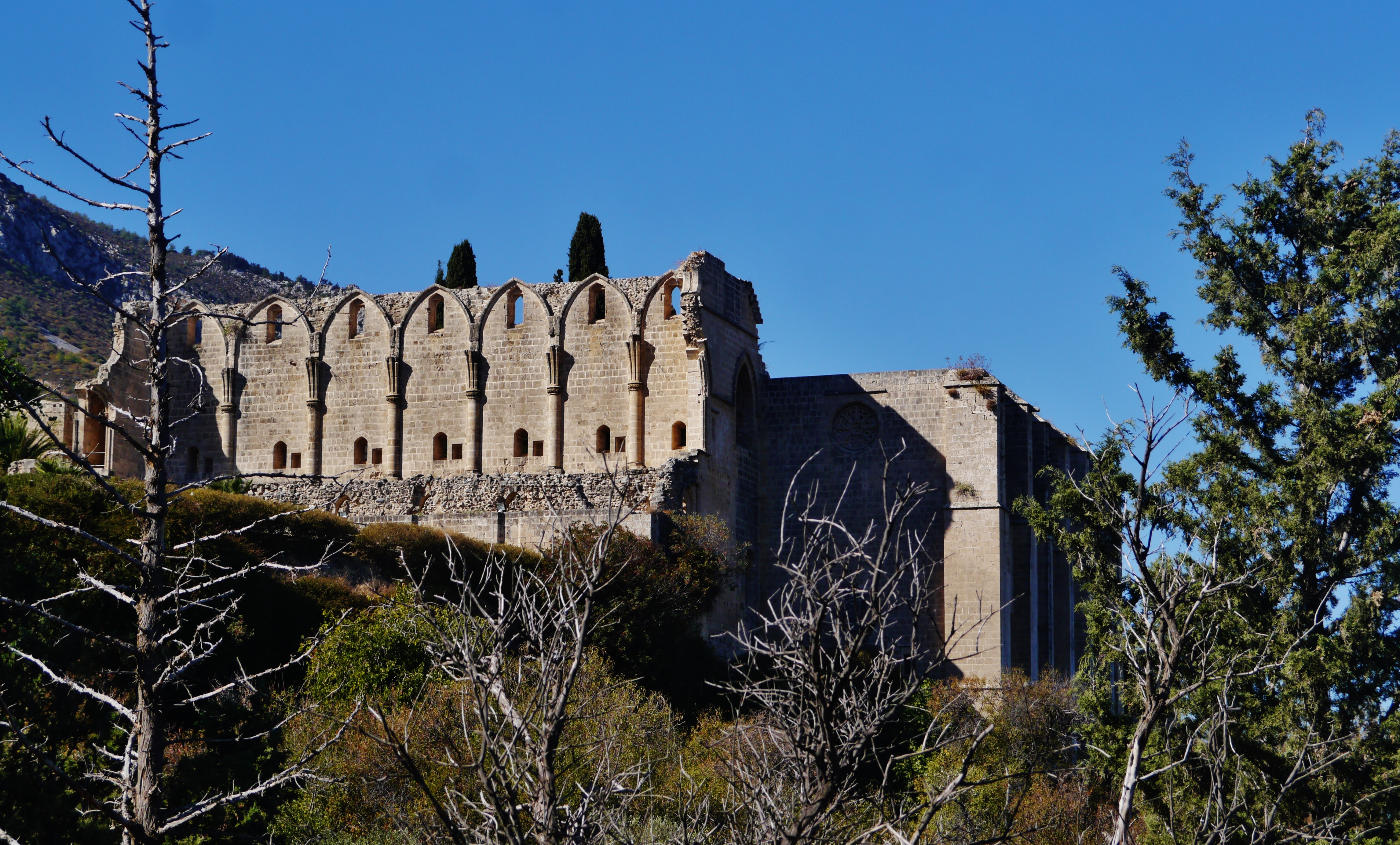 Bellapais Monastery, near Girne/Kyrenia, Turkish Republic of North Cyprus